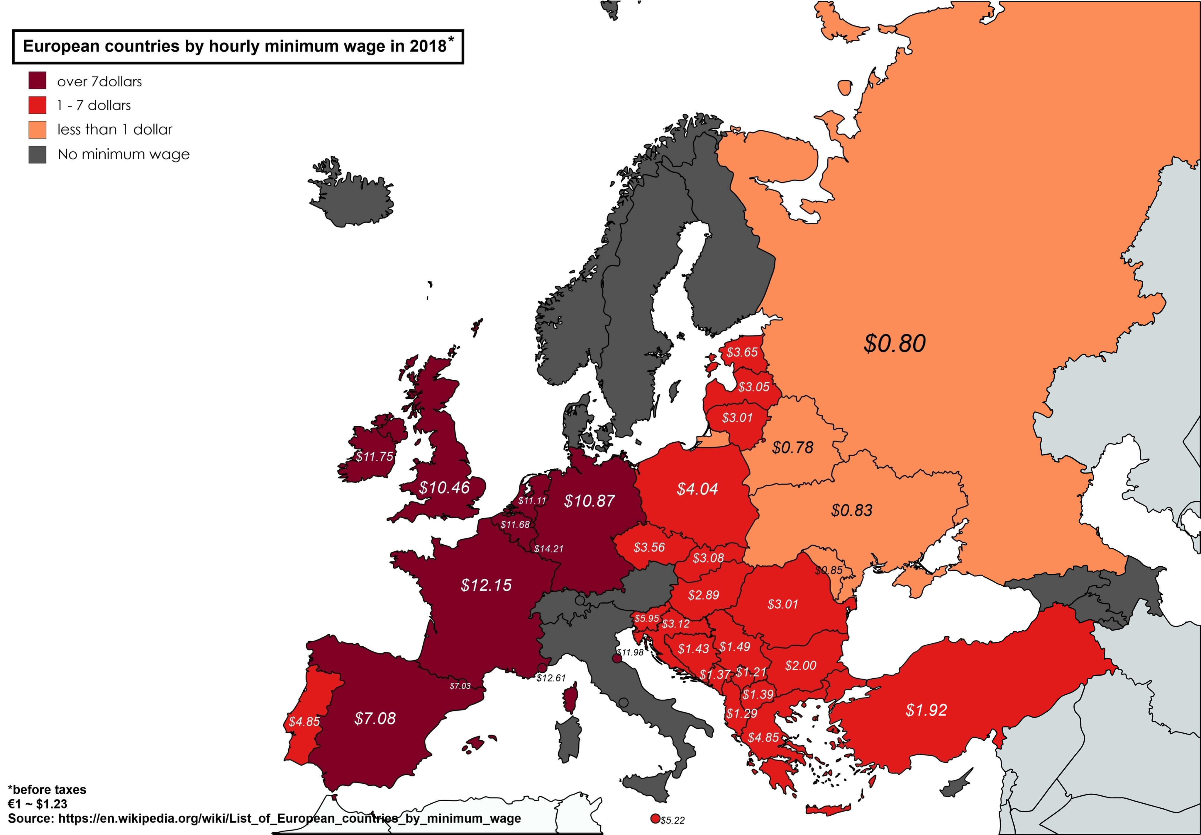 European countries by hourly minimum wage